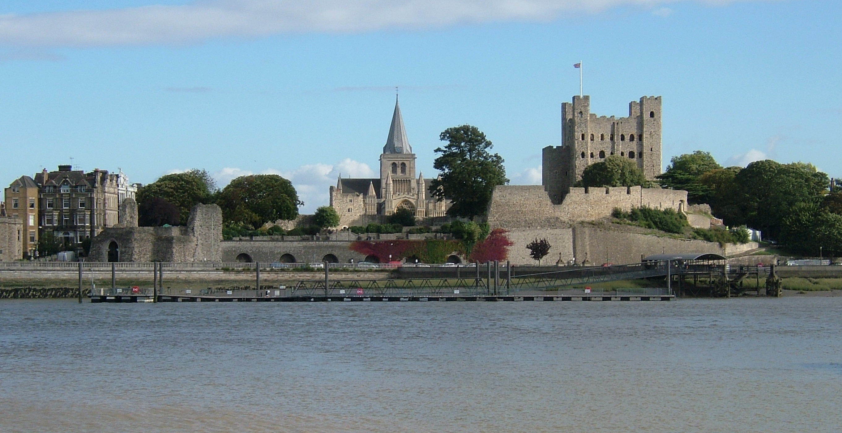 Rochester Castle from the banks of the River Medway